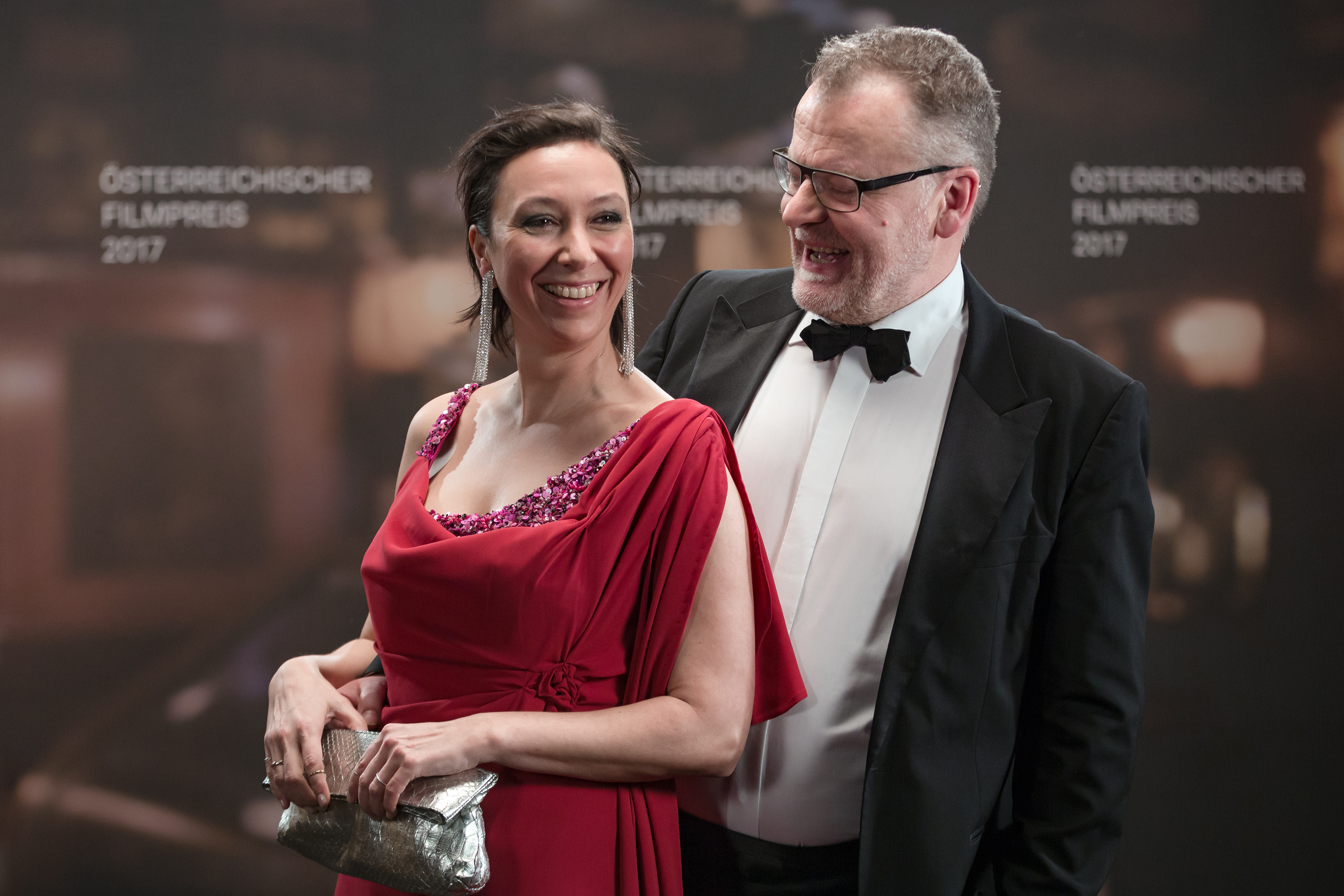 Ursula Strauss and Stefan Ruzowitzky at the Austrian Film Awards 2017 (Rathaus, Vienna,Austria).